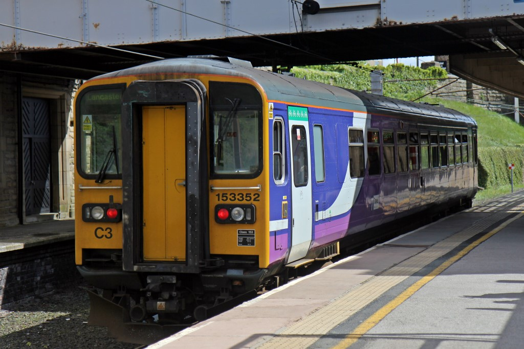 Northern Rail Class 153, 153352, platform 5, Lancaster railway station